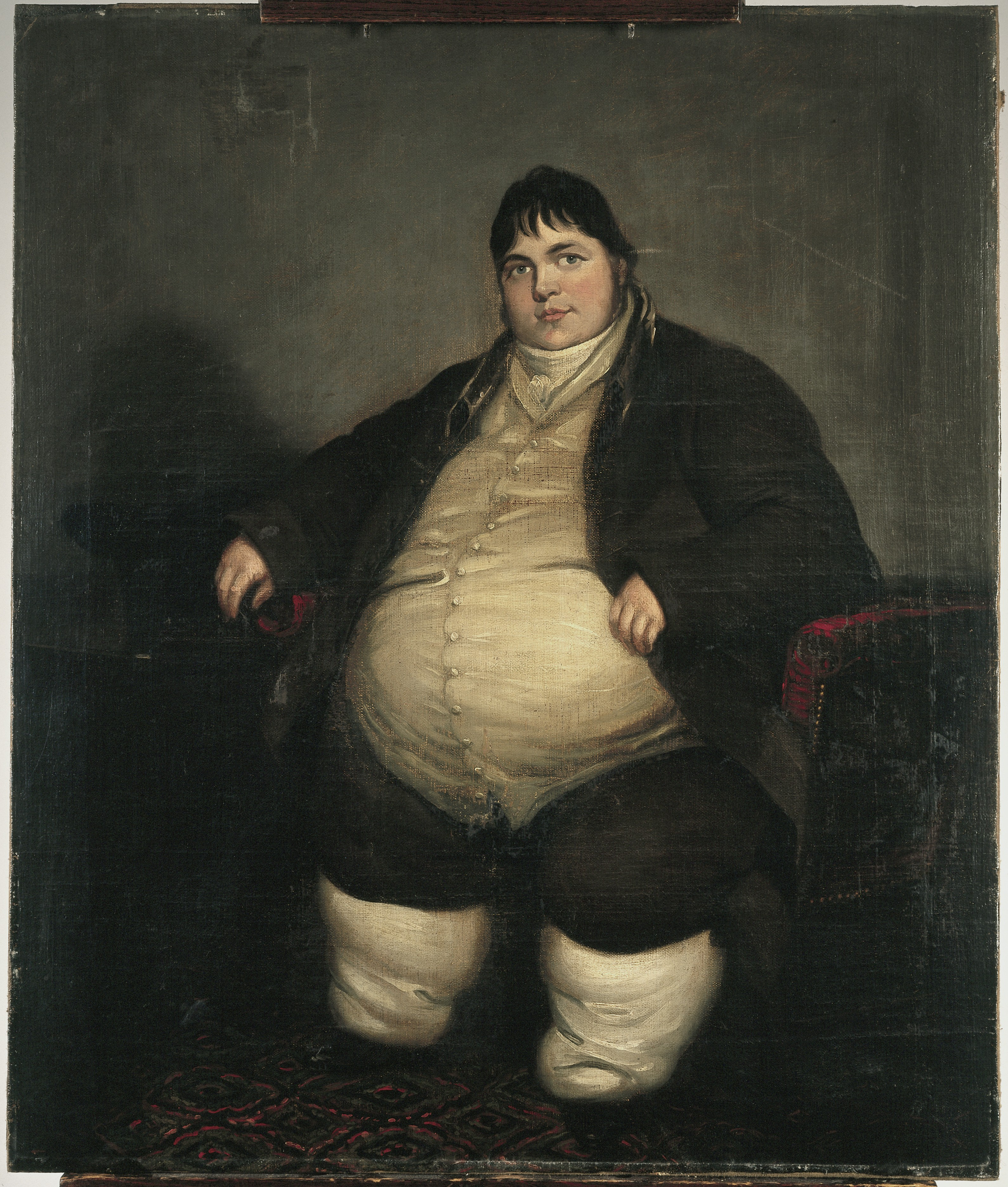 Daniel Lambert Iconographic Collections Keywords: Daniel Lambert